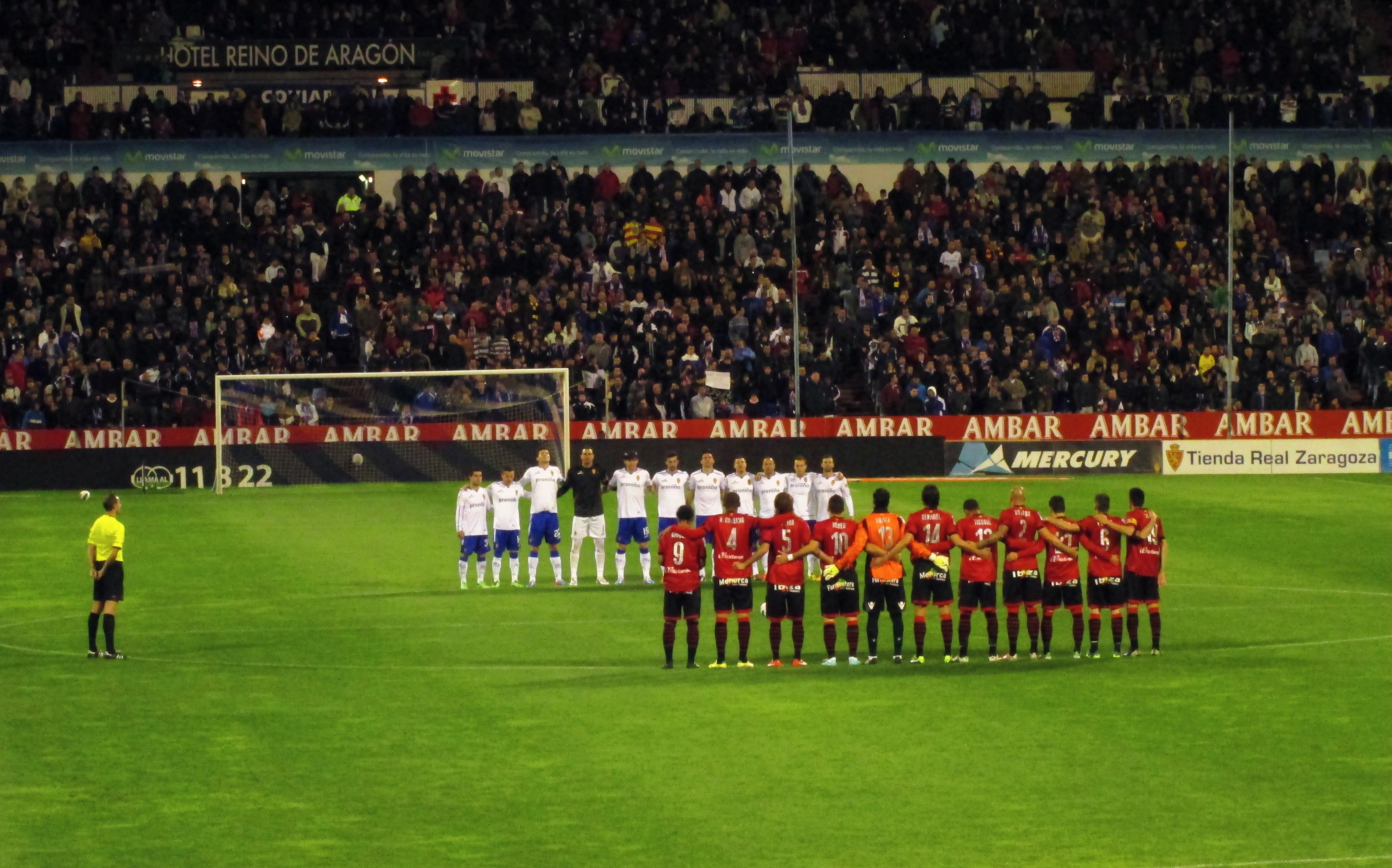 ALIniacion del Real Zaragoza contra el RCD Mallorca. Liga 2012-13. Primera Division.